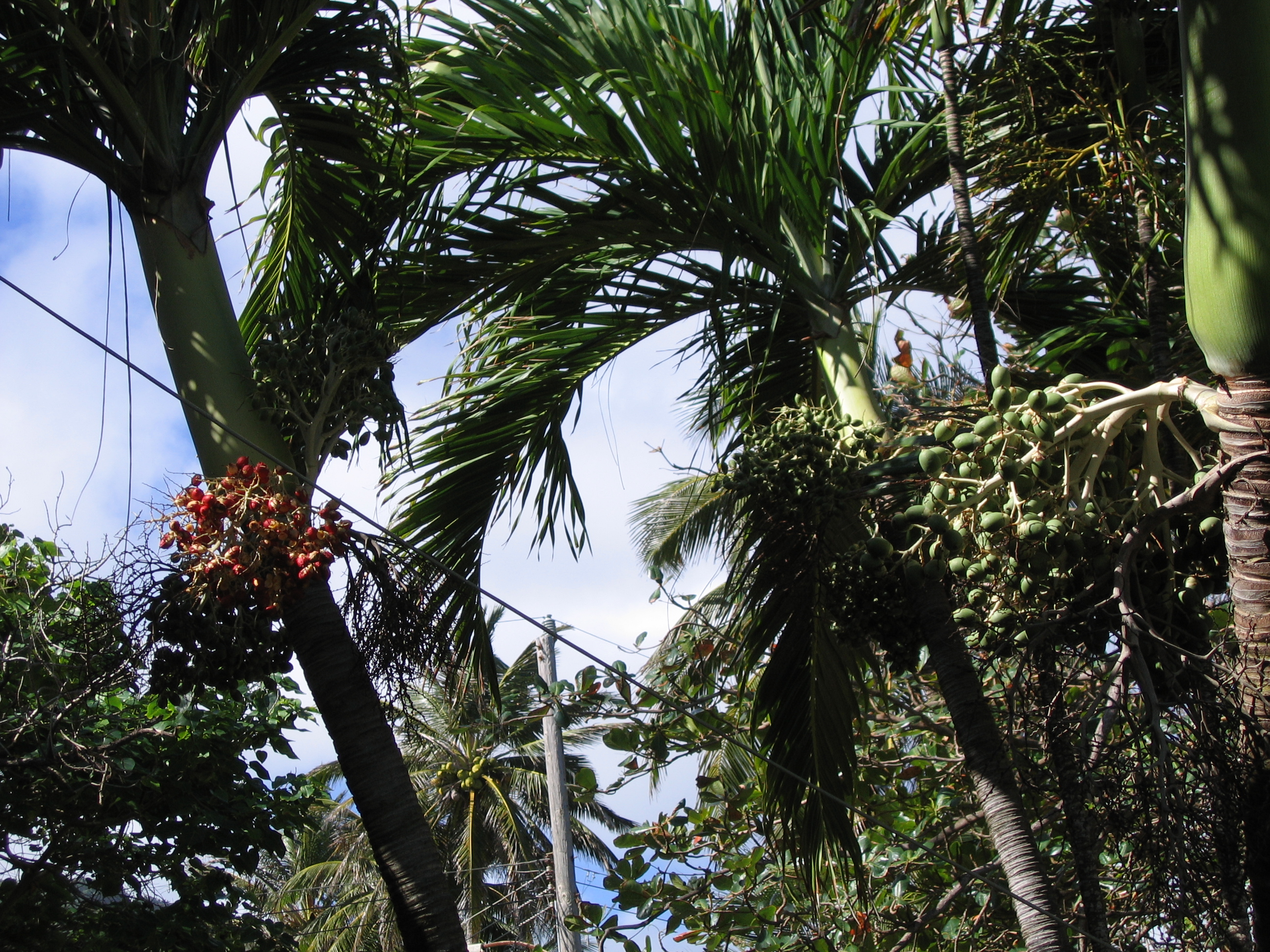 Vegetation behind Sea-U Guest House in Bathsheba, Saint Joseph, Barbados.